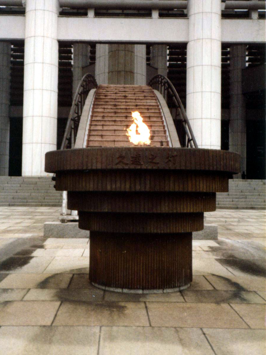 Kuon no hi Shohondo Taisekiji-Temple, Fujinomiya, Shizuoka, Japan